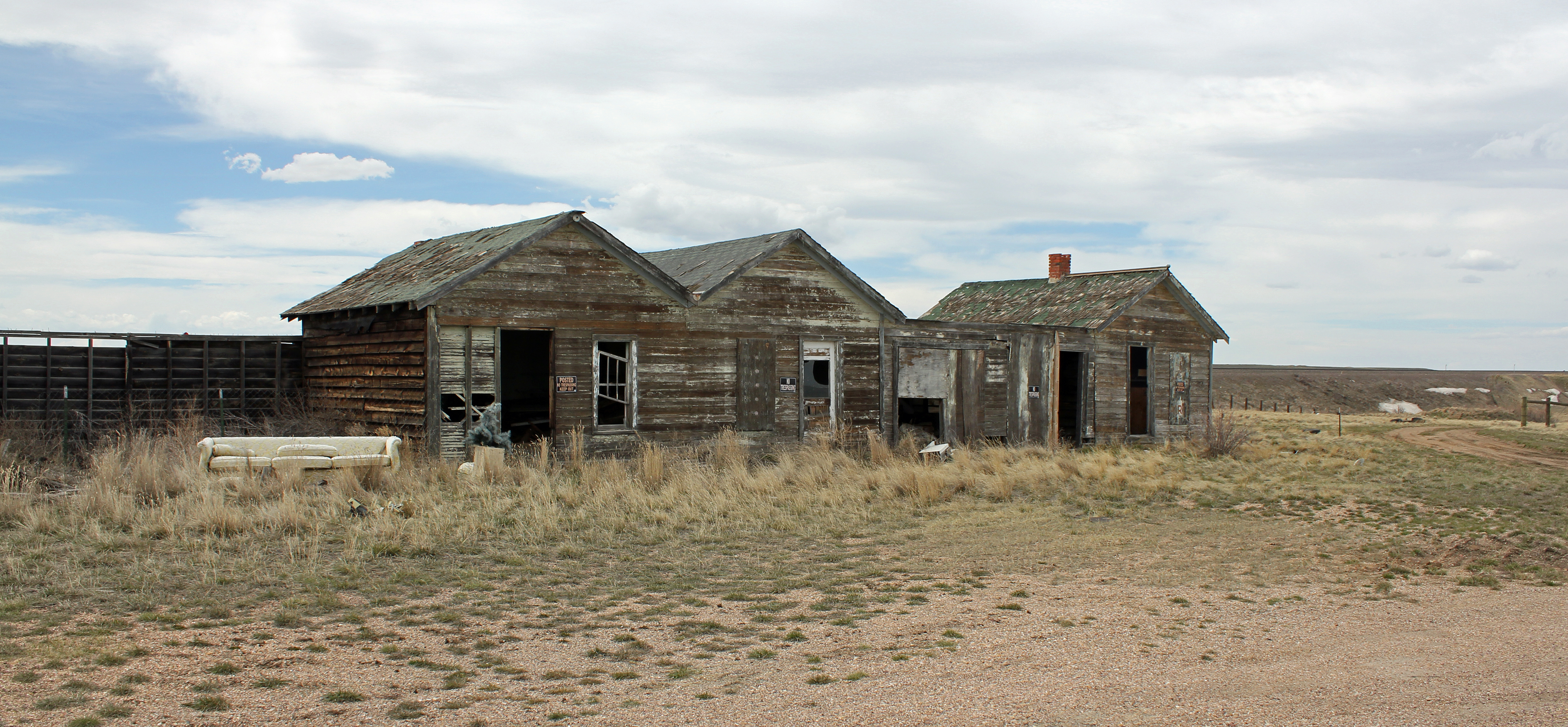 Some old buildings along the highway in Bosler, Wyoming.